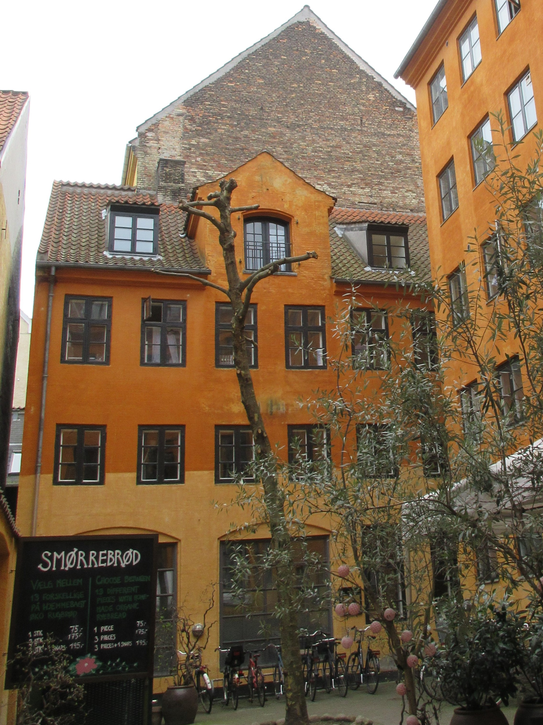 Store Kongensgade 62